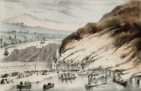 Cropped image from Nathianiel Currier print, "Great Conflagration at Pittsburgh", 1845